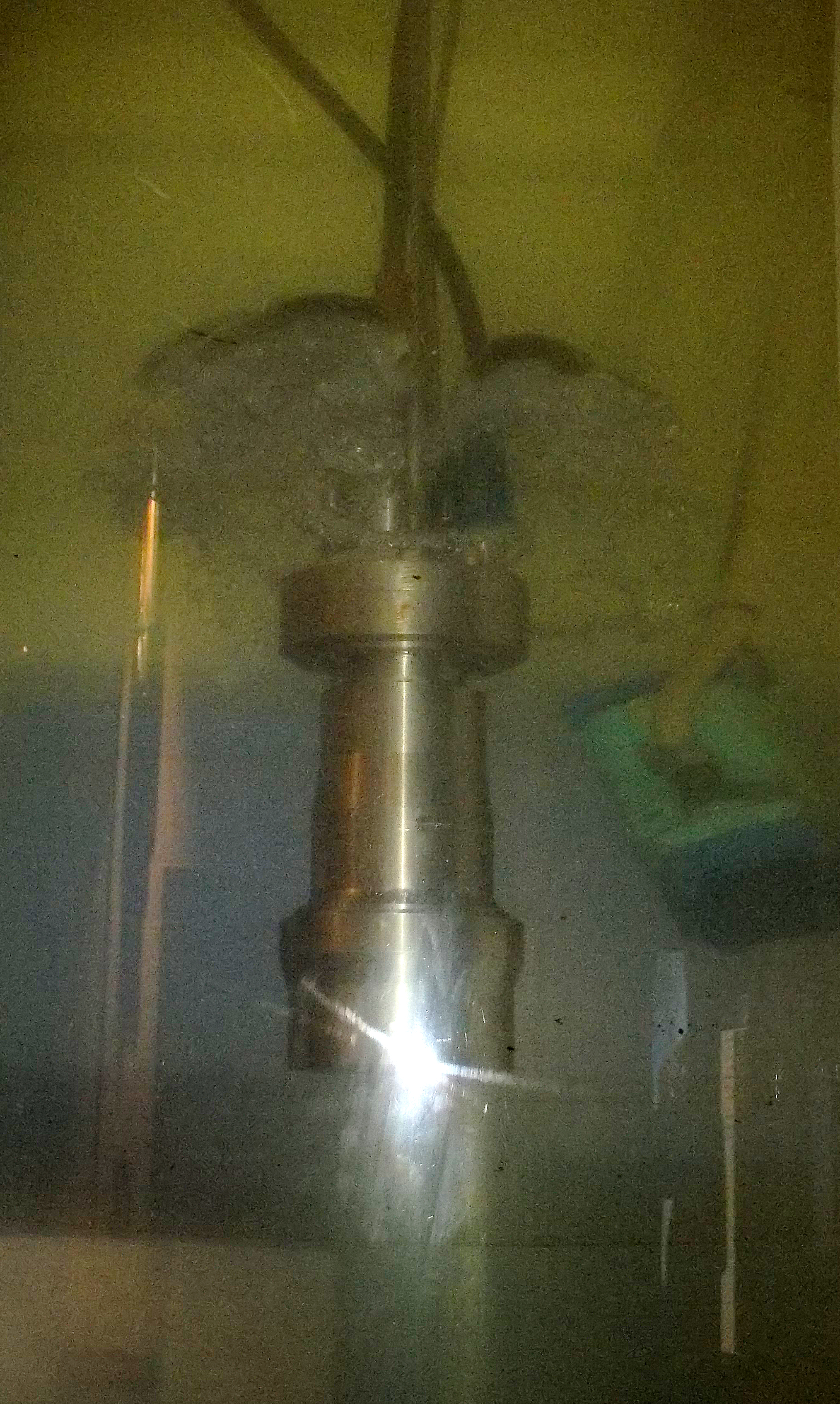 Air gun with bubbles after shot